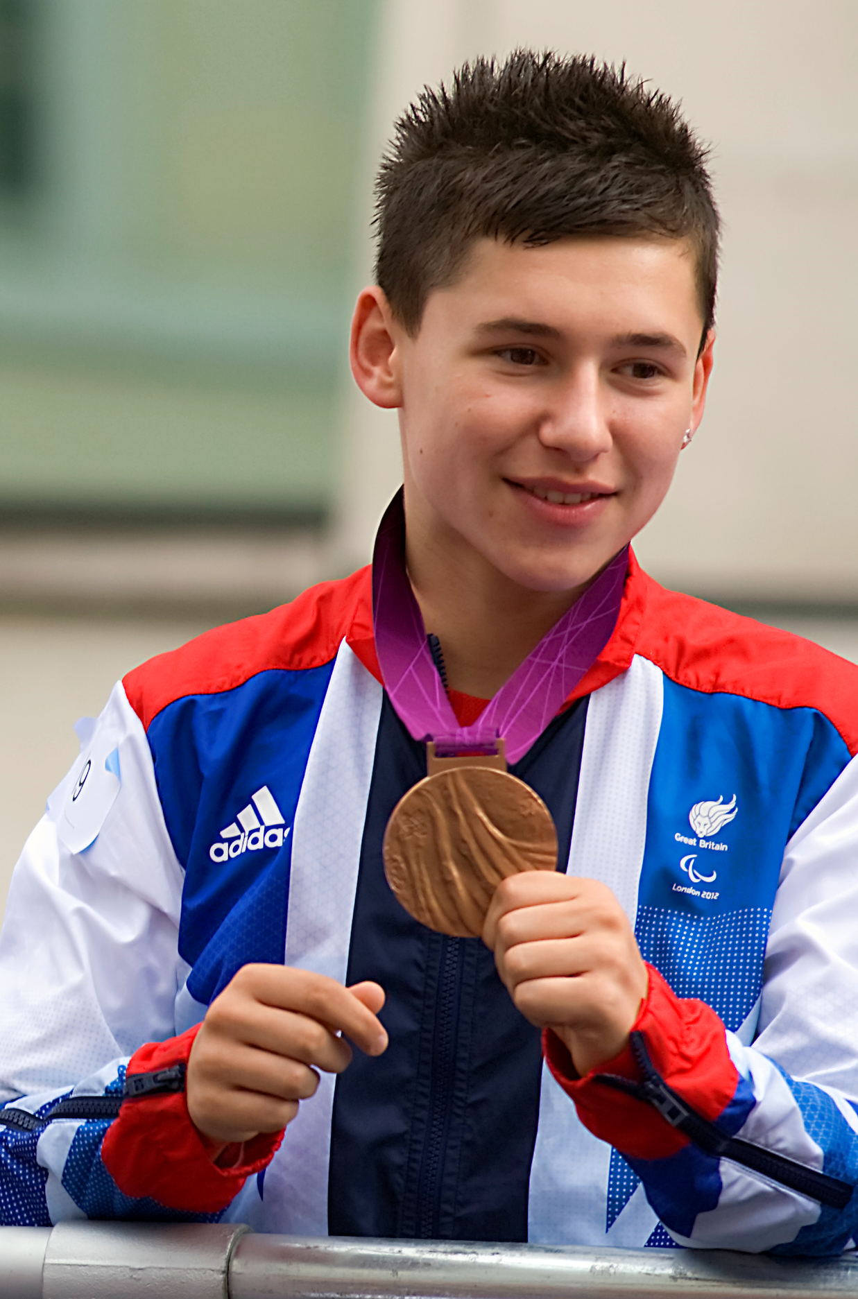 Ross Wilson - Great Britain Paralympic bronze medallist table tennis player at the 'Our Greatest Team Parade' after the 2012 Summer Paralympics.